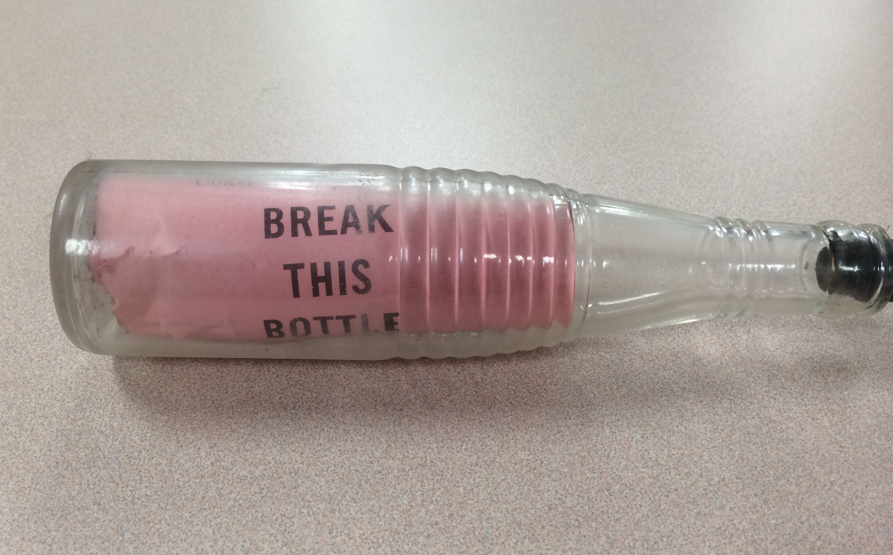 Photograph of "drift bottle" ("message in a bottle") launched in 1959 in the Atlantic Ocean off Massachusetts, and found on Martha's Vineyard, Massachusetts, U.S. in 2013.